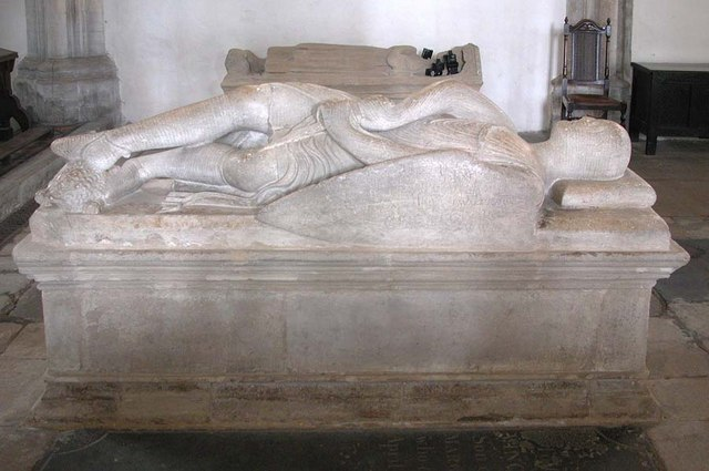 St Peter & St Paul, Dorchester, Oxon - Monument